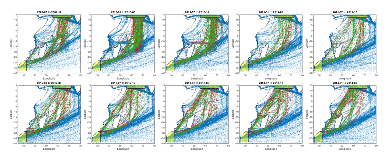 Time series of maritime traffic crossing the Indian Ocean showing the effect of piracy and its progressive decline in re-routing ships. Each sub-plot shows 6-month colour-coded trips, red southbound and green northbound, using Long Range Identification and Tracking (LRIT) historical data. Operational authorities requested an increase of LRIT reporting frequency from ships in 2009 and 2010 in order to better track them remotely in the High Risk Area. The increase of tracking points can be erroneously perceived as an apparently higher volume of traffic with respect to other periods. Published in Vespe M., Greidanus H., Alvarez M., 'The declining impact of piracy on maritime transport in the Indian Ocean: Statistical analysis of 5-year vessel tracking data'. Marine Policy. 59: 9–15. [1]